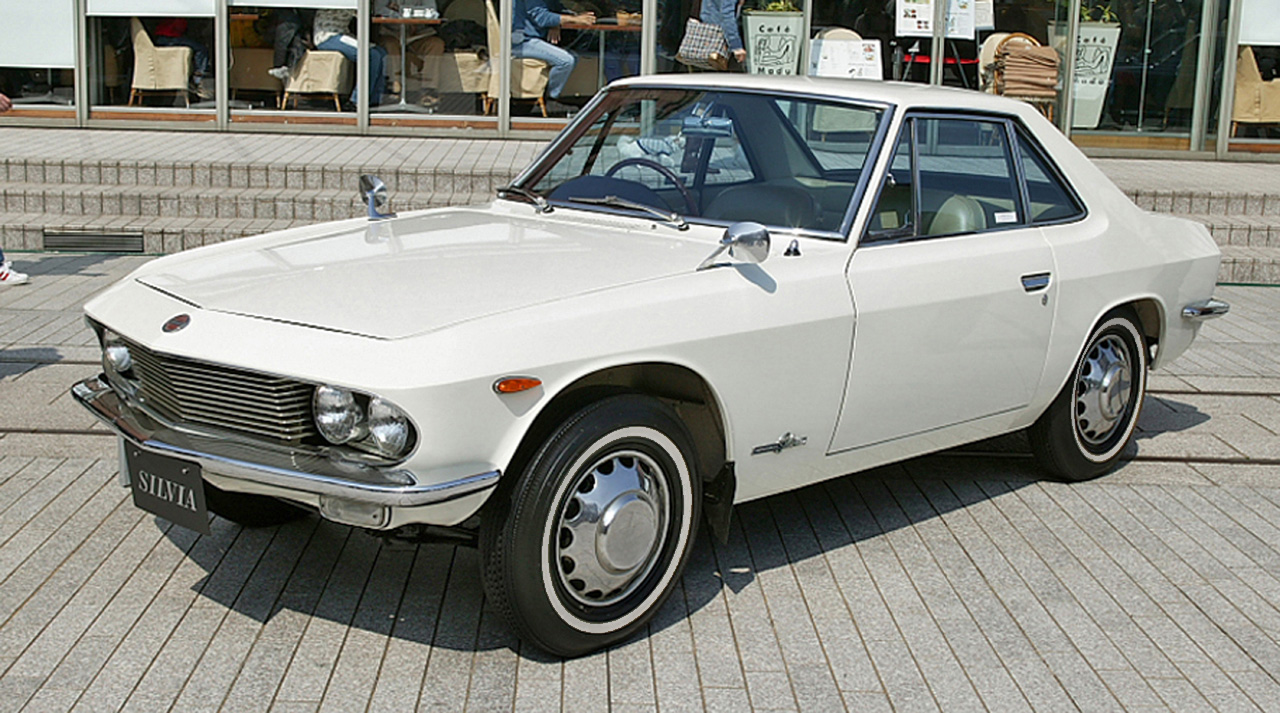 Nissan Silvia first generation ( CSP311 )